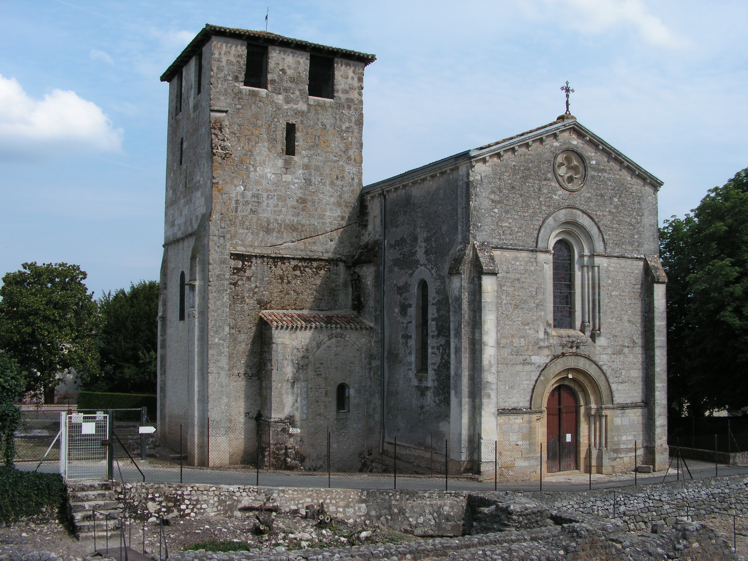 Montcaret (Dordogne)